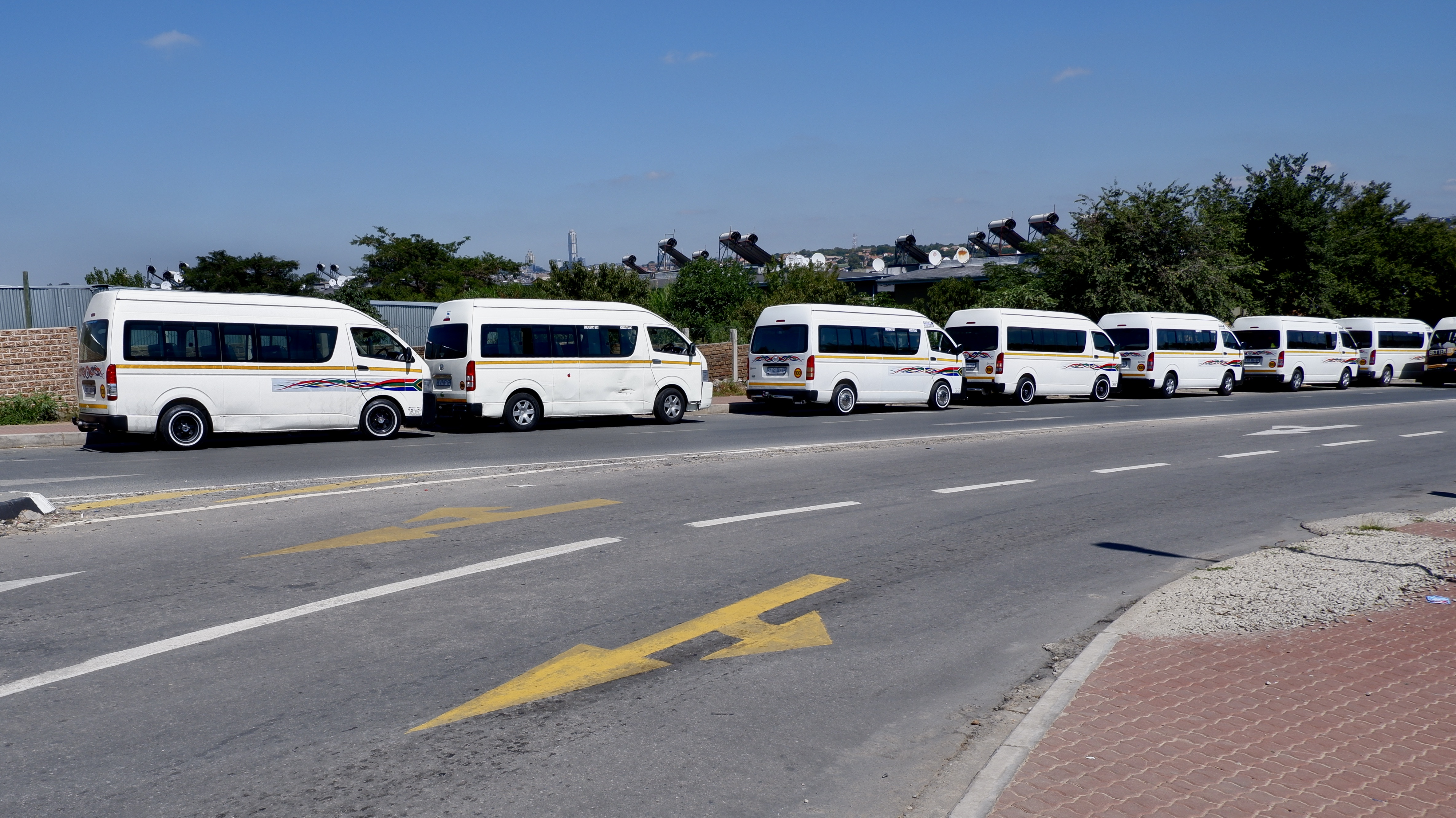 This is an image with the theme "Africa on the Move or Transport" from: South Africa